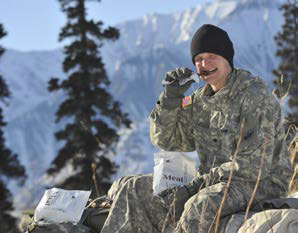 Warfighters Eating Meal, Cold Weather (MCW) in Arctic.